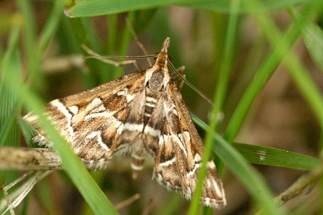 Diasemia reticularis from Commanster, Belgian High Ardennes .